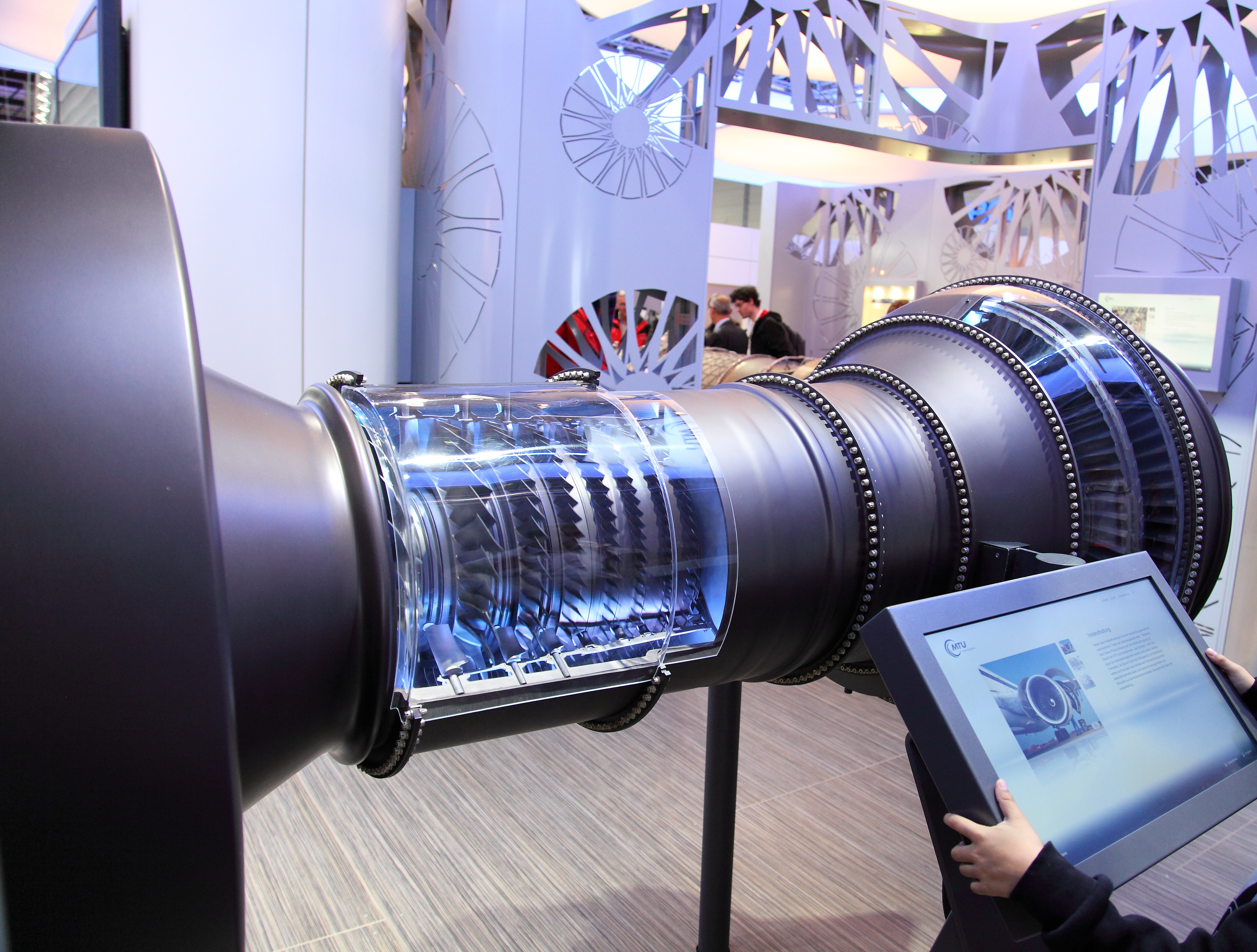 ILA Berlin Air Show 2012; Geared Turbo Fan: The Technology of the PurePower; PW1000G Engine